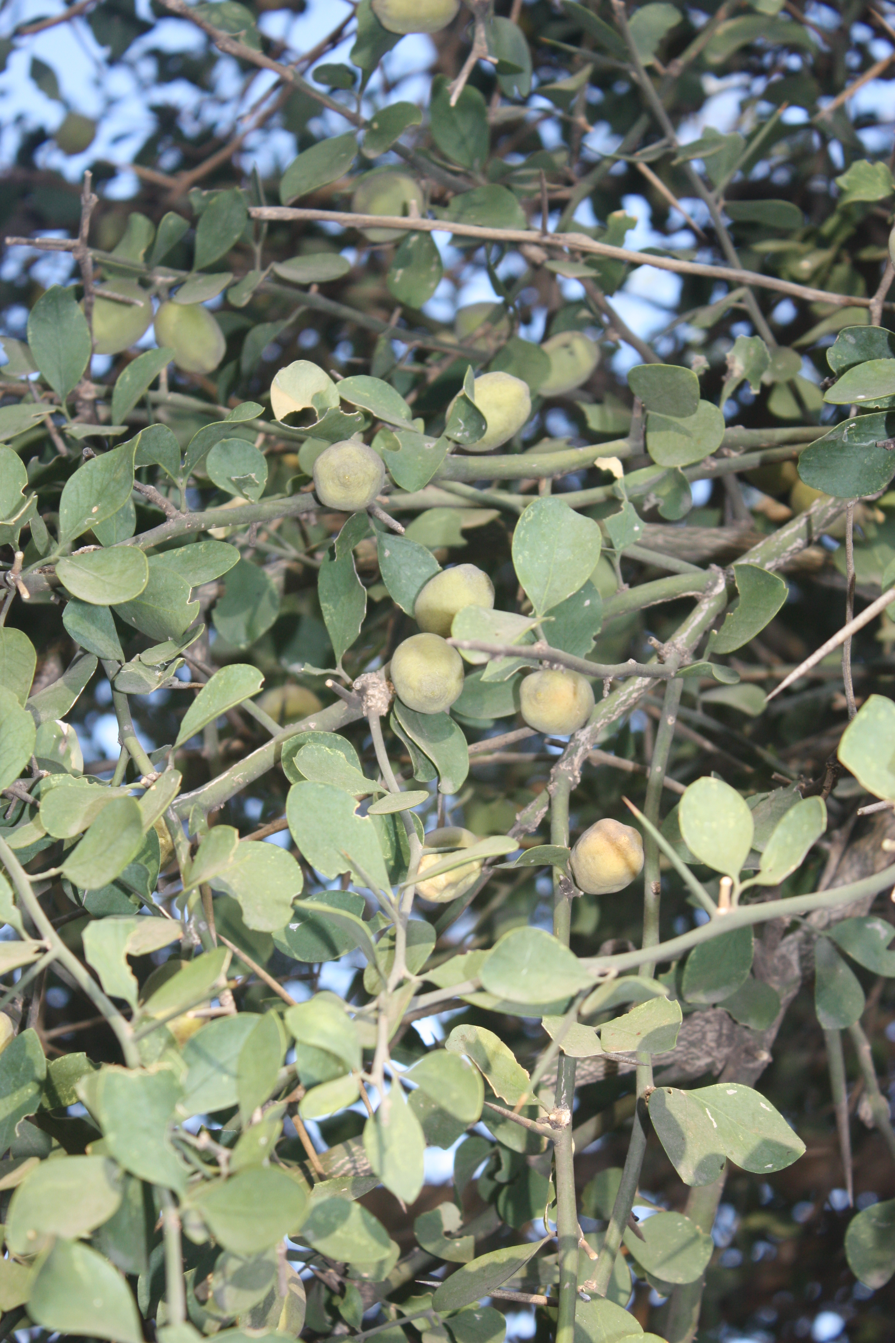 Fruiting branches of Desert Date, Balanites aegyptiaca, in Fada N'Gourma, Burkina Faso